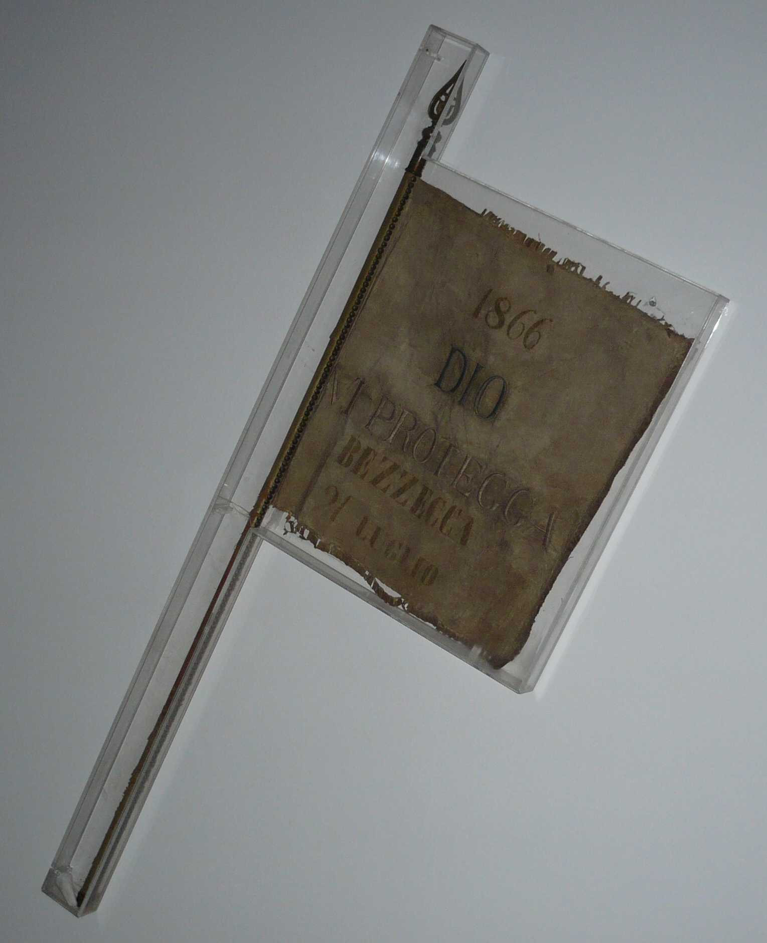 Flag taken at Bezzecca battle on July 21, 1866 from Garibaldi's soldier Angelo Donati